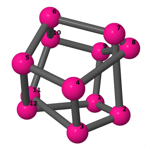 One of 85 simple cubic graphs with 12 vertices.